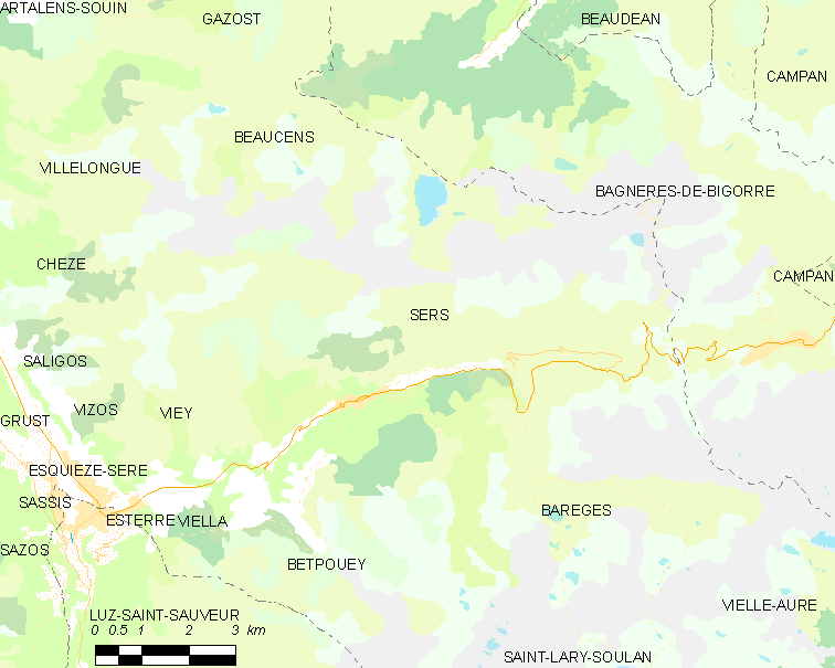 Map of French municipality